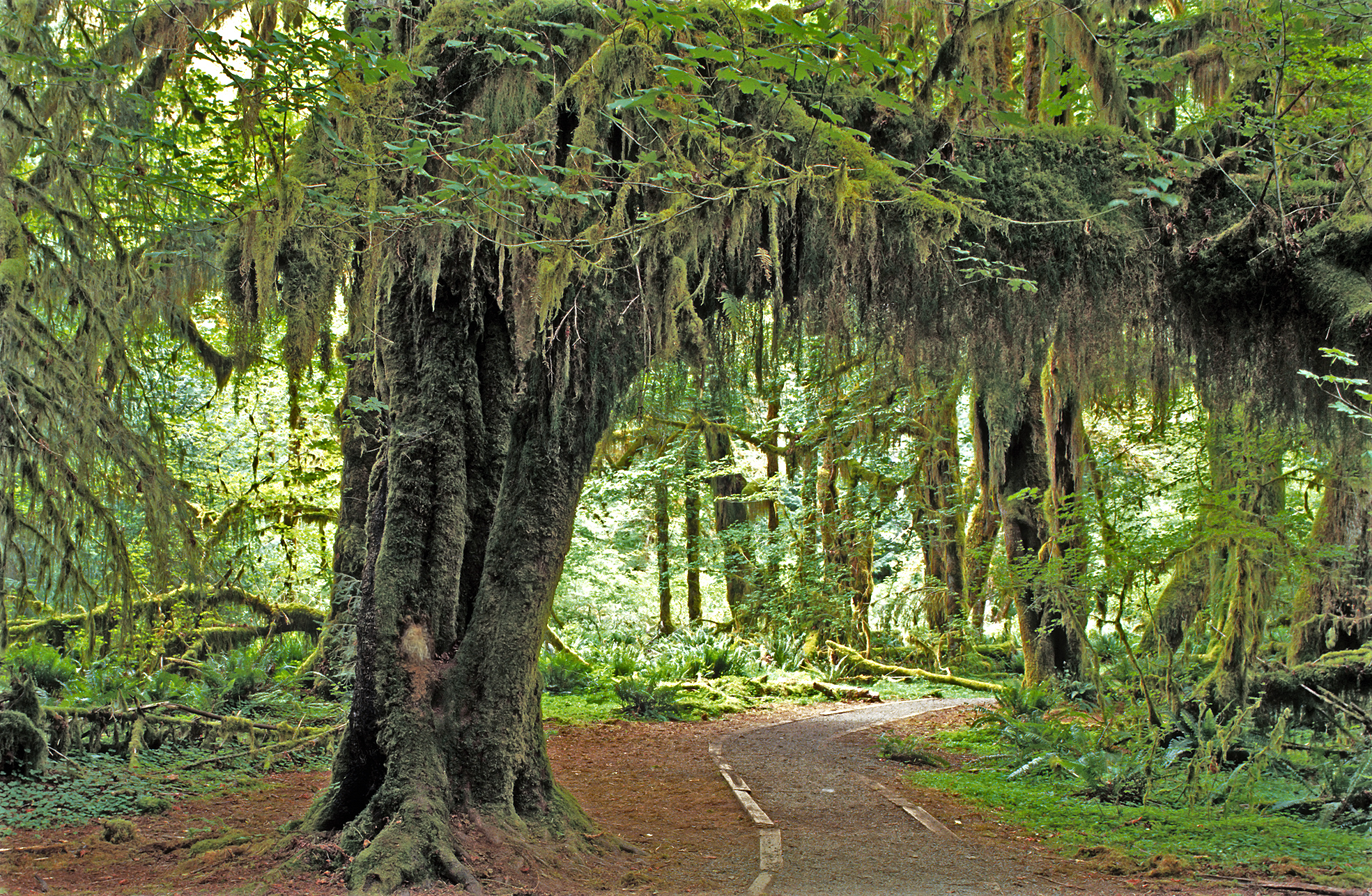 Hoh Rain Forest in the Olympic National Park, Washington State, USA.